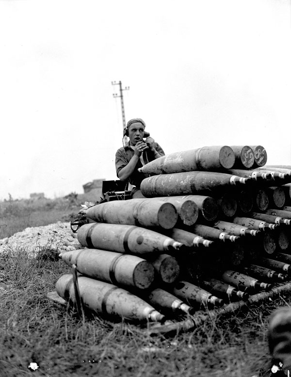 LAC caption : Unidentified signaller receiving the order to fire a 5.5-inch gun of a Medium Regiment of the Royal Canadian Artillery (R.C.A.) south of Vaucelles, France. Comment : The photograph also shows a stack of shells for the gun.